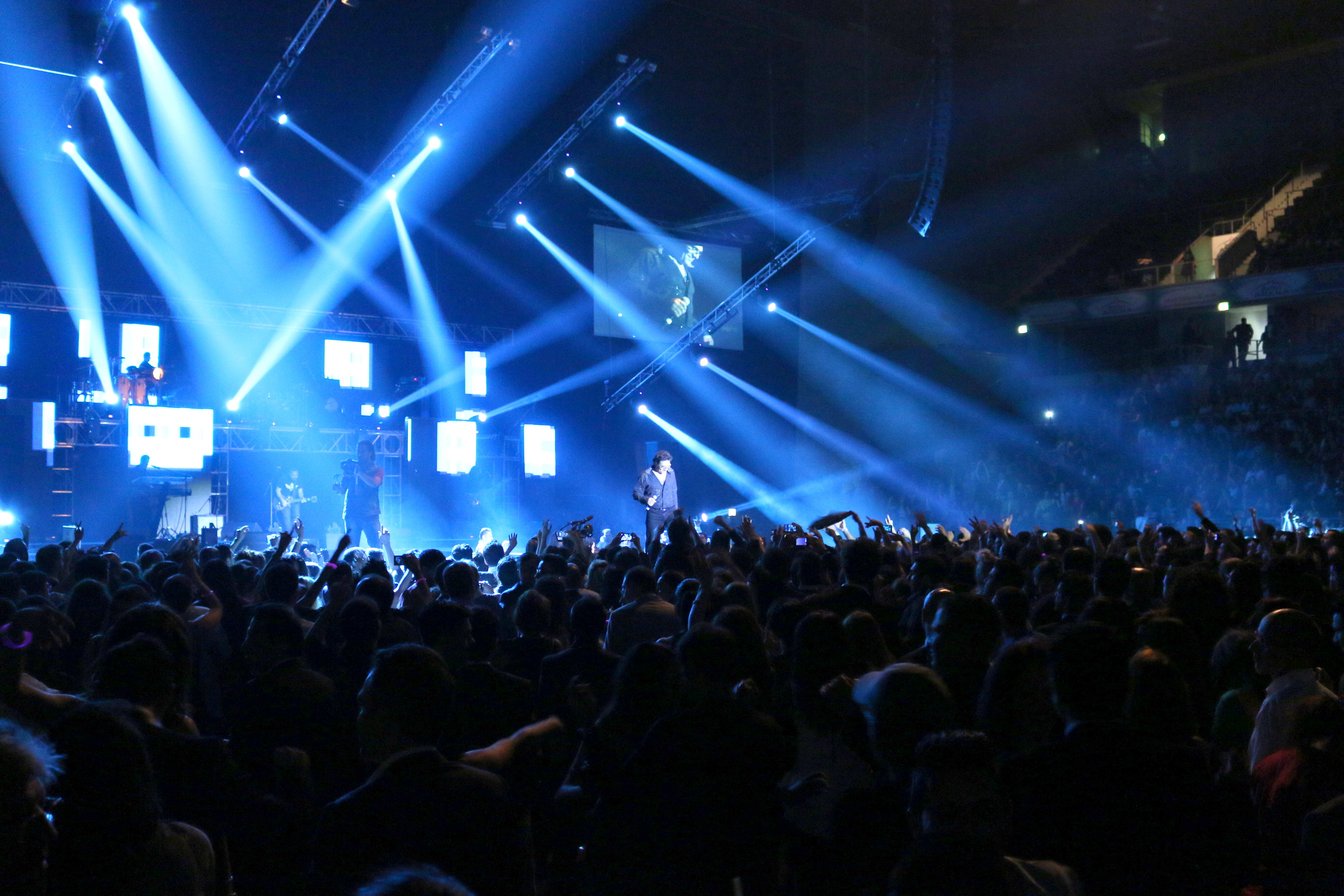 Andy Madadian, Persian-Armenian pop singer in a Nowruz concert at Oberhausen Arena, Germany, March 2014. Photo: Persian Dutch Network.